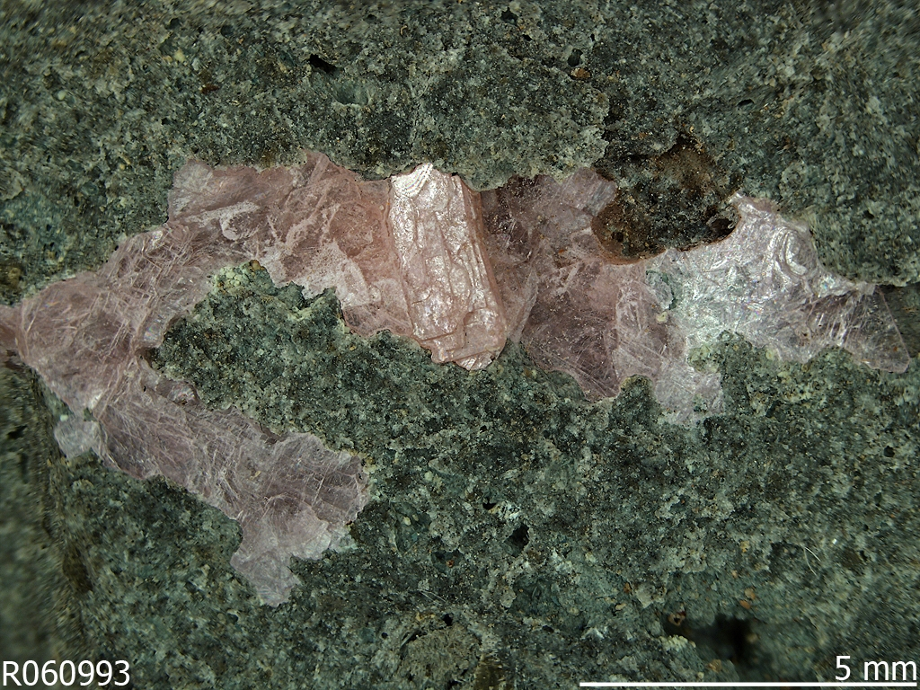 Image of Lanthanite-(Nd) from Mitsukoshi, Hizen-cho, Karatsu City, Saga Prefecture, Japan. Donated to the RRUFF Project Database by Marcus Origlieri.